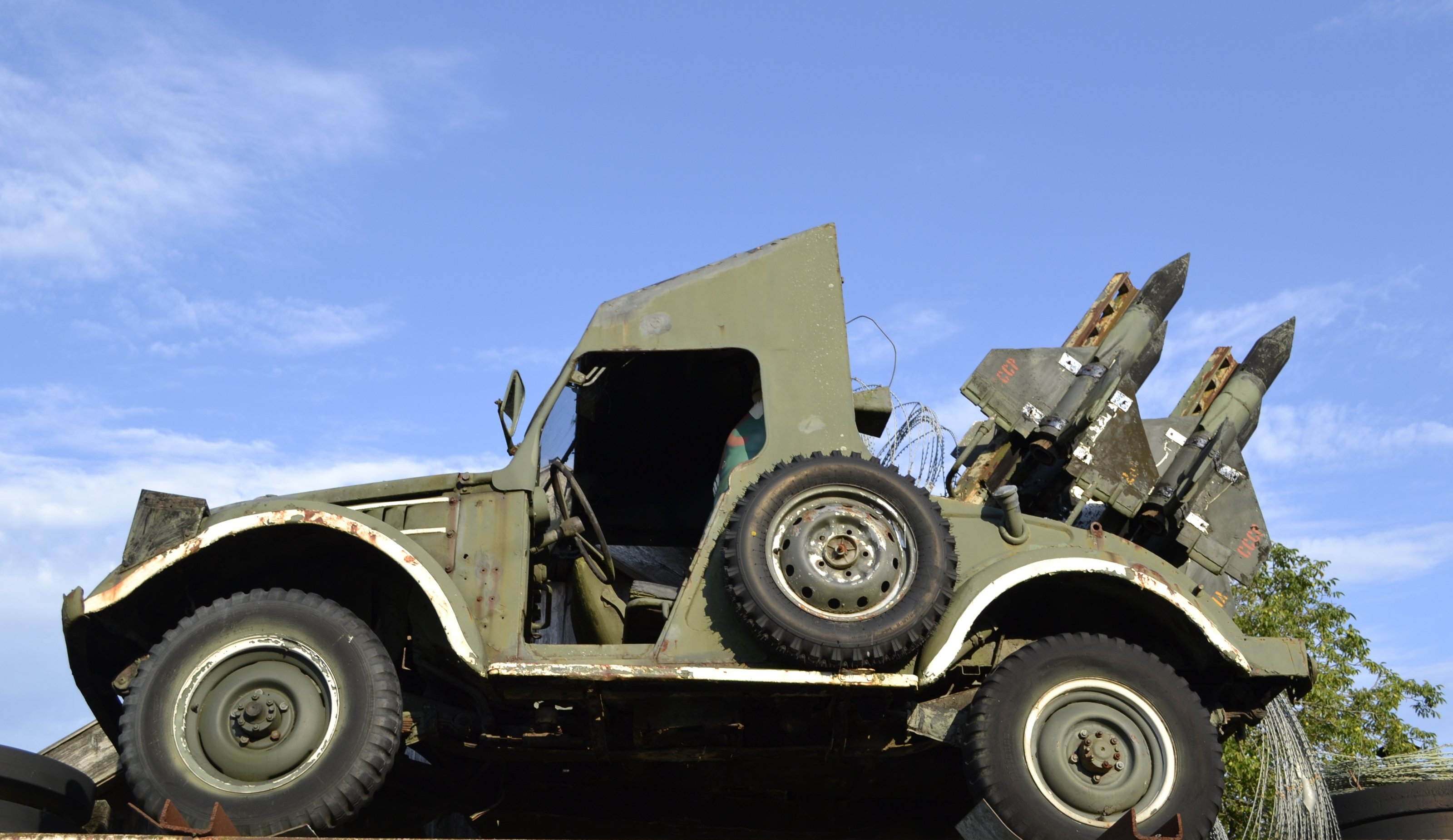 2P26 with 3M6-Shmel-anti-tank missiles.